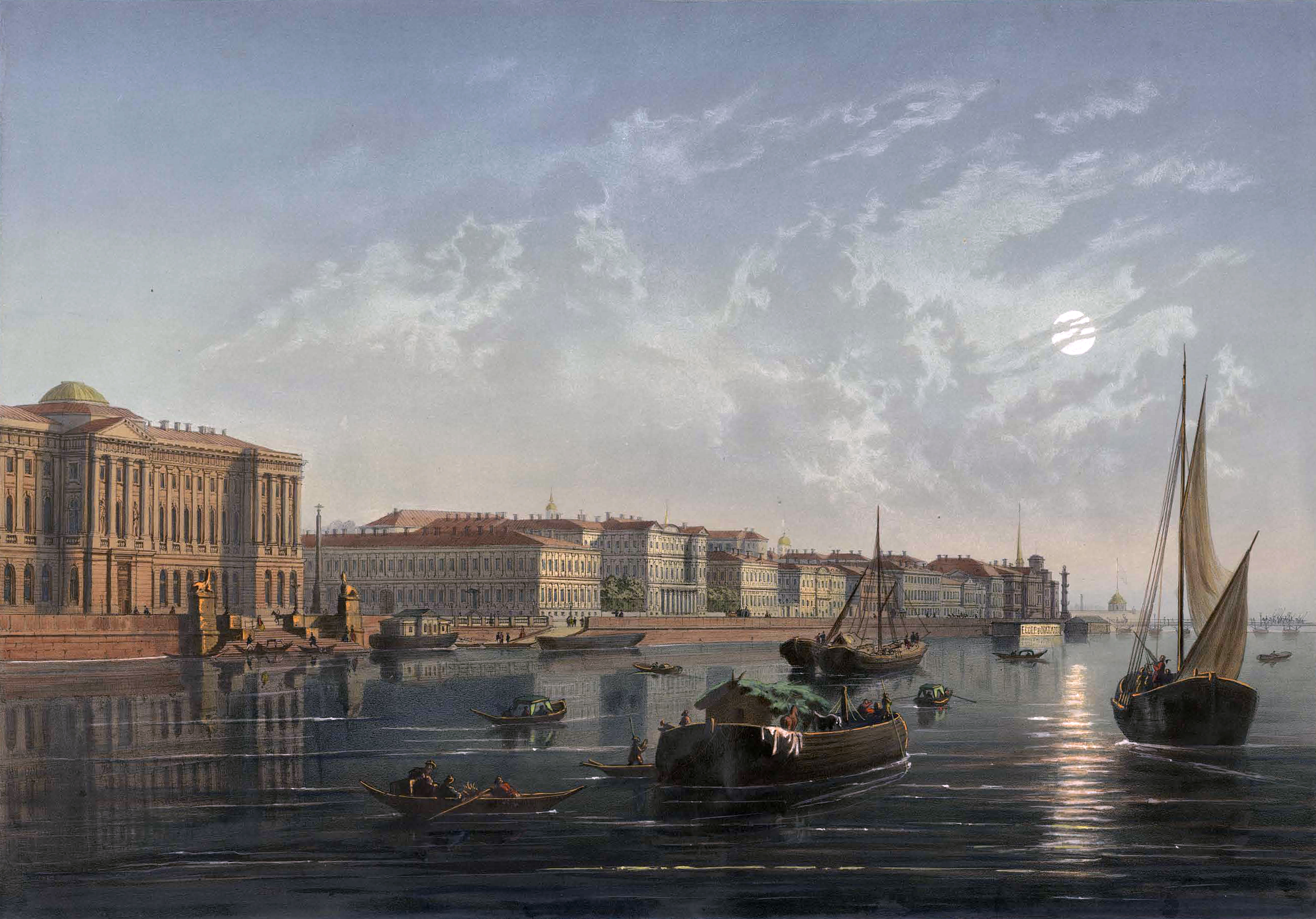 Universitetskaya Embankment, 19th century, lithograph after a drawing by Charlemagne